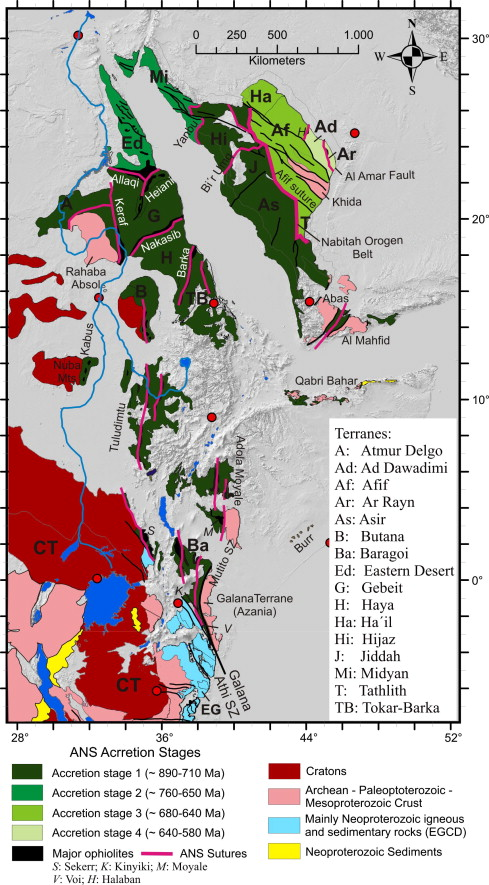 Crustal age domains in the northern East African Orogen and crustal growth phases in the Arabian–Nubian Shield. CT, Congo–Tanzania Craton; EG, Eastern Granulites.